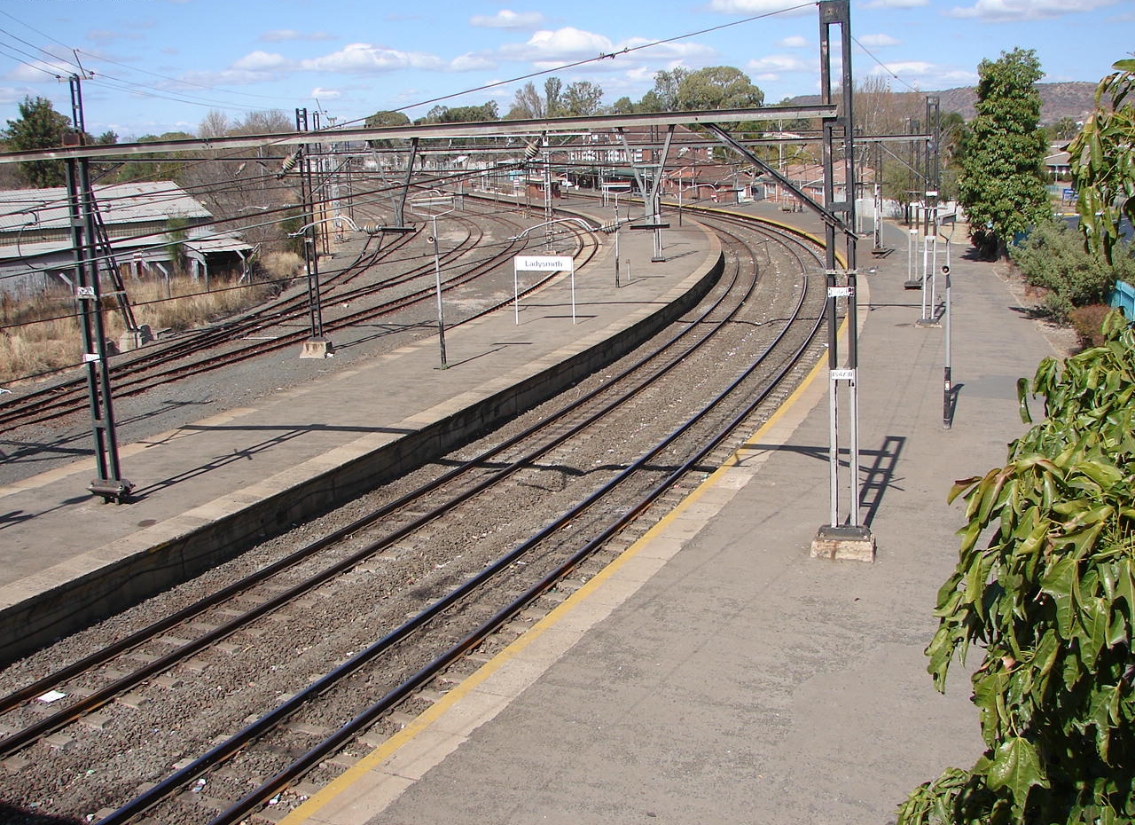 Ladysmith station, Kwa-Zulu Natal